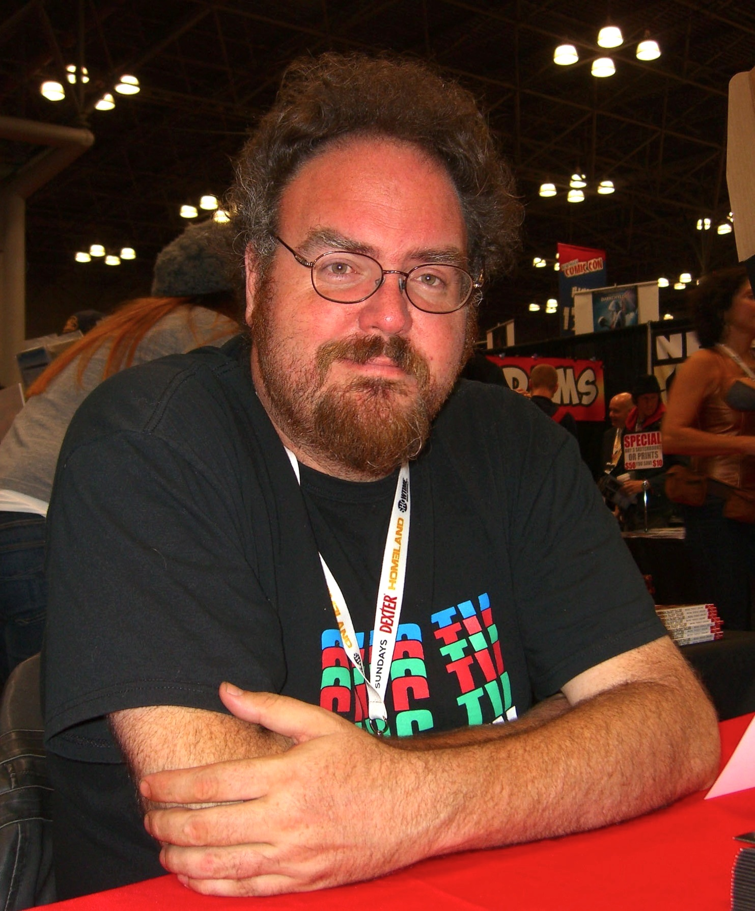 Writer/director Jon Schnepp on Day 2 of the 2012 New York Comic Con, Friday October 12, 2012 at the Jacob K. Javits Convention Center in Manhattan. This photo was created by Luigi Novi. It is not in the public domain, and use of this file outside of the licensing terms is a copyright violation.